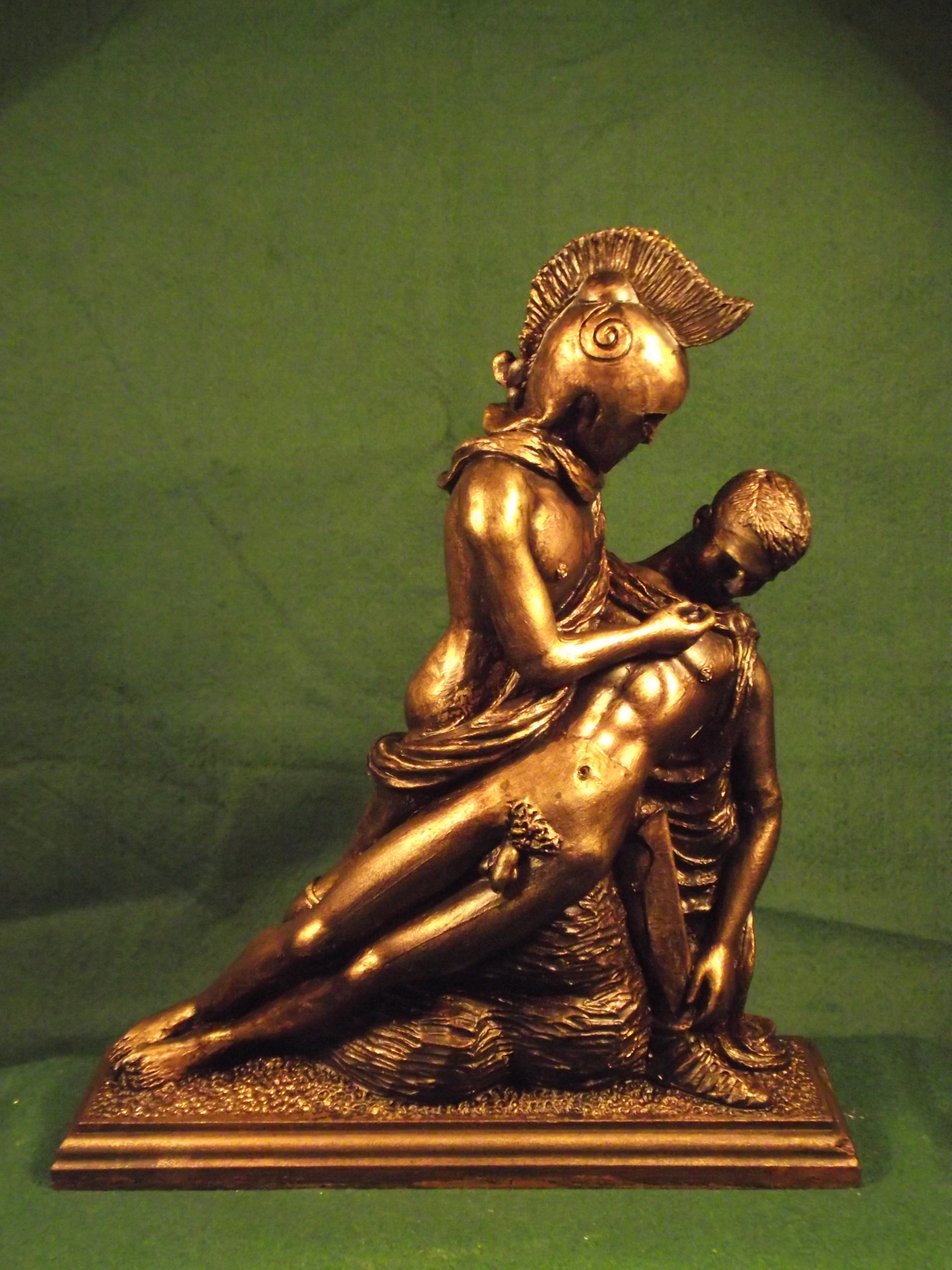 Achilles and Patroclus. Composite constructed sculpture of historical figure(s) reputed to have had a same sex relationships. Made of various materials & found objects with thin veneer film of bronze patina-ted paint giving appearance of solid bronze. A Metaphor of the appearance of solidity of LGBT rights & equality in law in the UK. Created by artist Malcolm Lidbury for 2016 LGBT History & Art Project Cornwall UK.